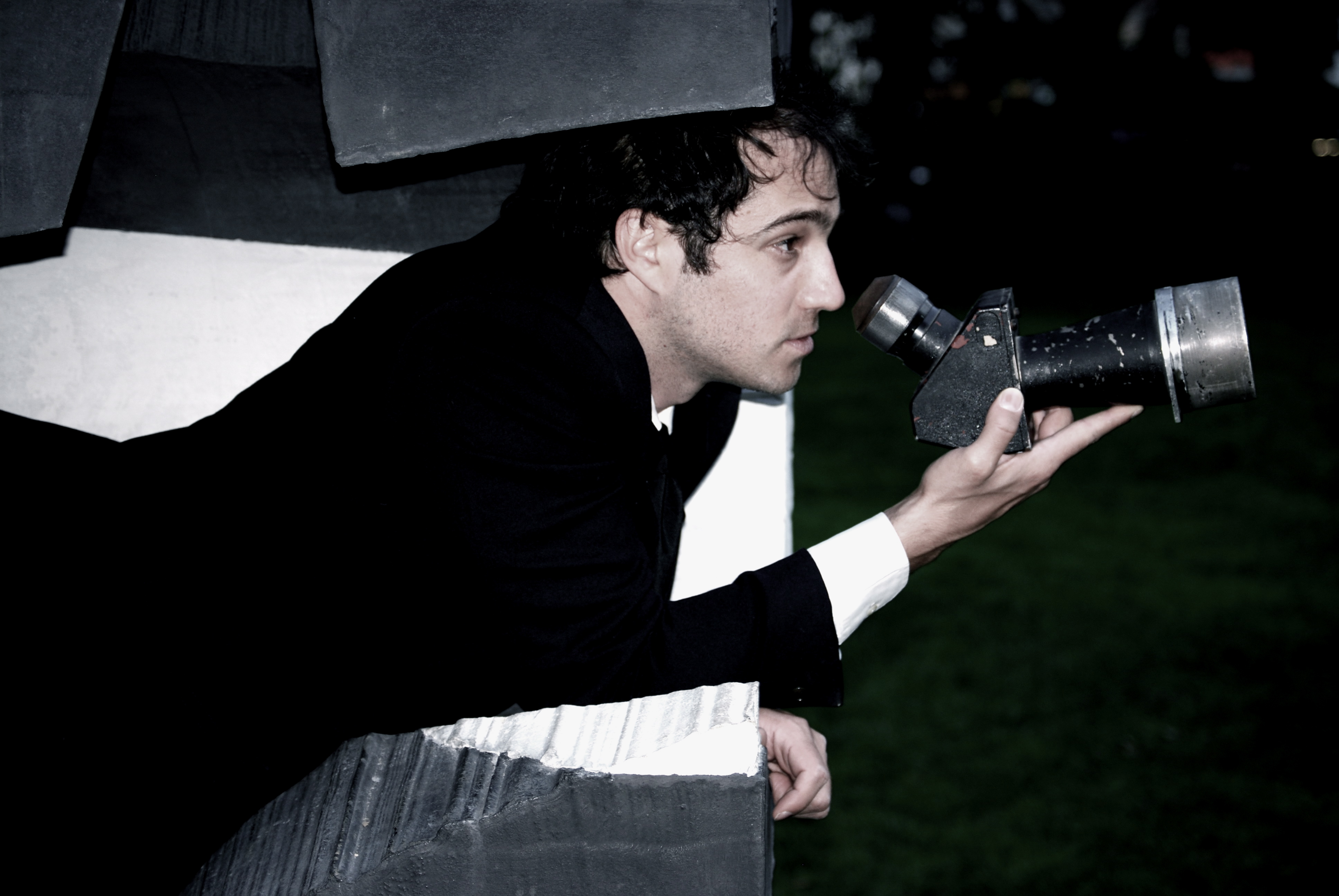 Madison Green Sept 2009